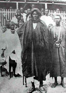 Iconic photo of Senegalese Sufi leader Ibrahima Fall, who helped develop the Mouride movement of Ahmadu Bamba. Second only to the iconic single image of Bamba in its reproduction throughout Senegal. Taken sometime before 1914. Photographer is unknown. the work was in the public domain in the country of origin as of January 1, 1996, WORKS PUBLISHED OUTSIDE THE US Date of Publication Conditions Copyright Term in the United States Before 1 July 1909 None In the public domain